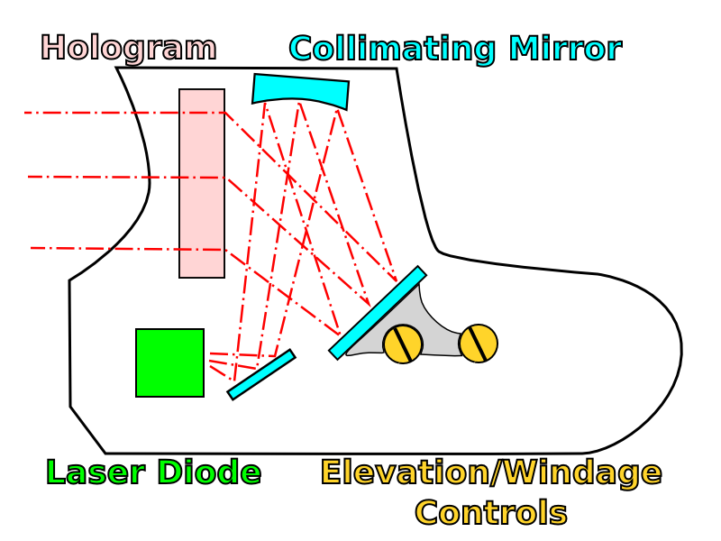 Diagram of the internal function of a holographic sight. PNG Export.